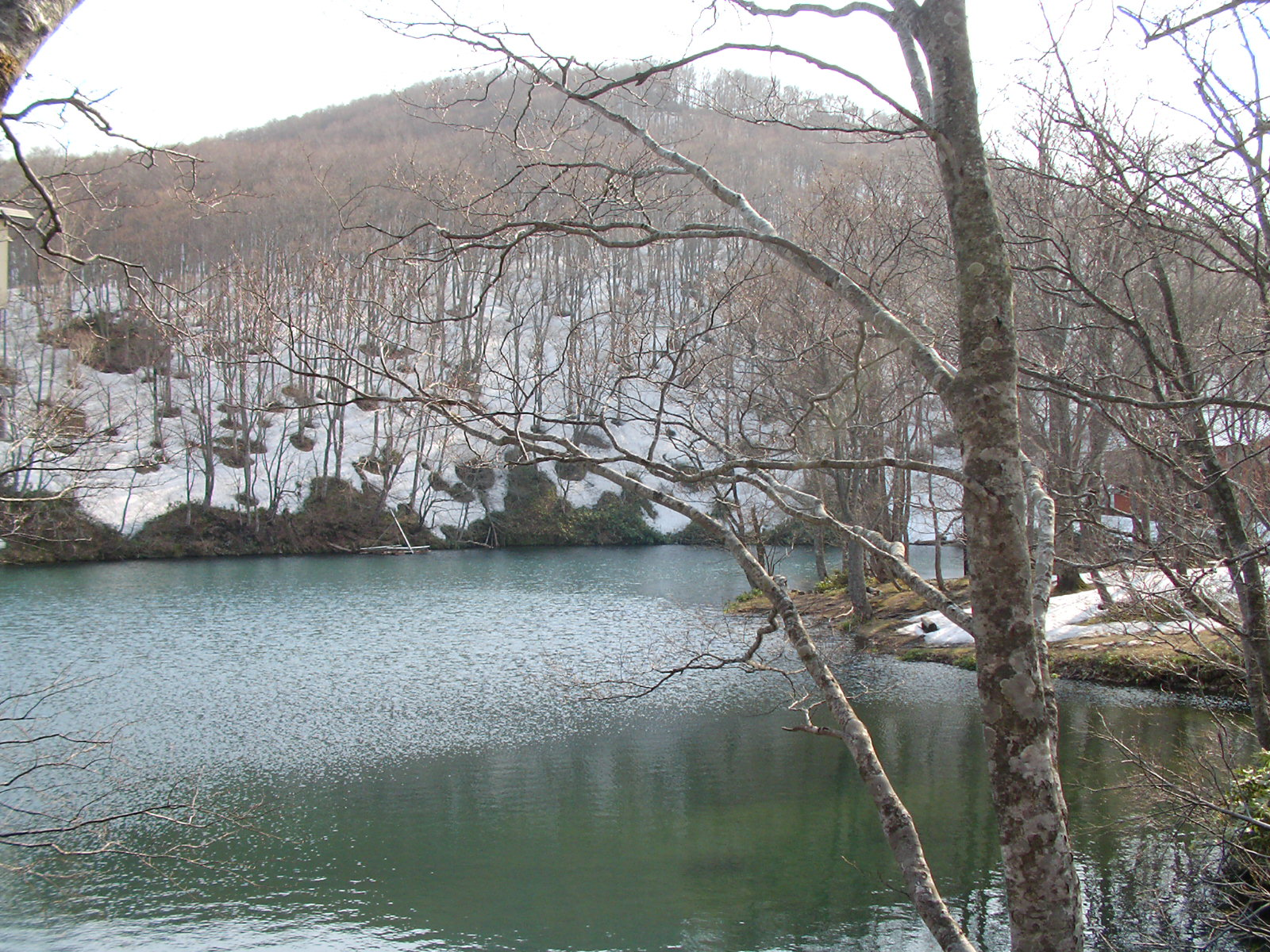 Pond Dokko-numa of Mount Zao, Yamagata-shi, Yamagata, Japan.